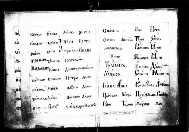 Old manuscript from 1863 founded in Kičevo Monastery in Macedonia